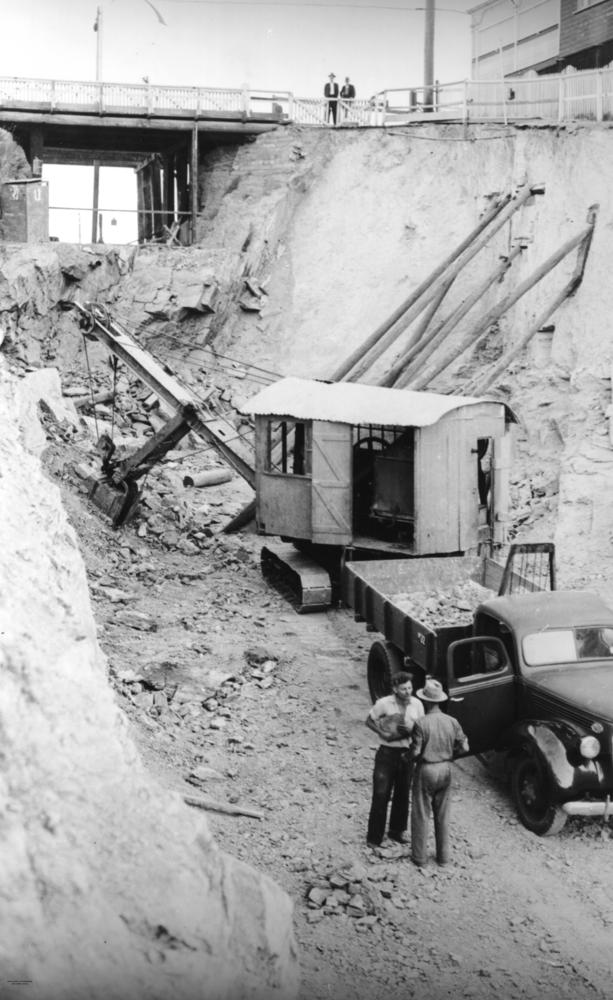 Excavation of the approach to the proposed West End to St. Lucia bridge, Brisbane, 1940 Excavation of the approach to the proposed West End to St. Lucia Bridge. The bridge was never constructed. Two men are standing on a bridge above the excavation site. Timber poles support the earthworks.